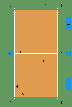 Volleyball court lines and zones